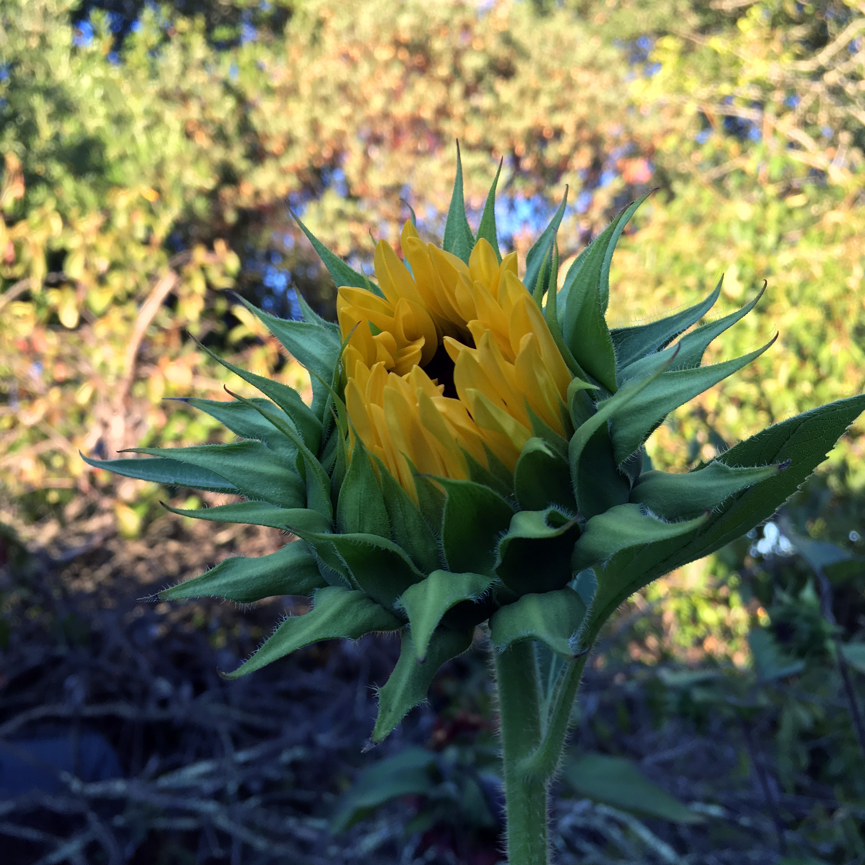 Sunflower 'ProCut Peach' on July 27, 2017 in Santa Rosa, Ca.